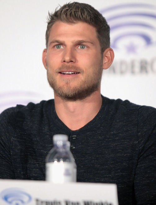 Travis Van Winkle speaking at the 2016 WonderCon, for "The Last Ship", at the Los Angeles Convention Center in Los Angeles, California.